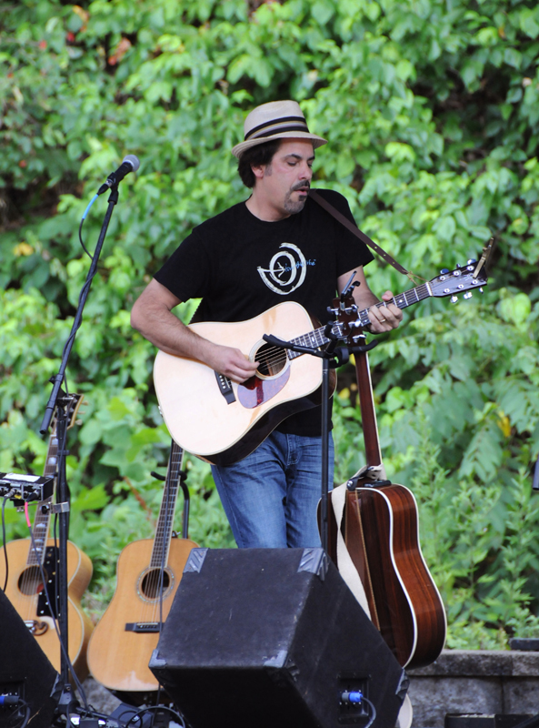 Gregg Cagno at Black Potatoe Music Fest, Clinton, NJ